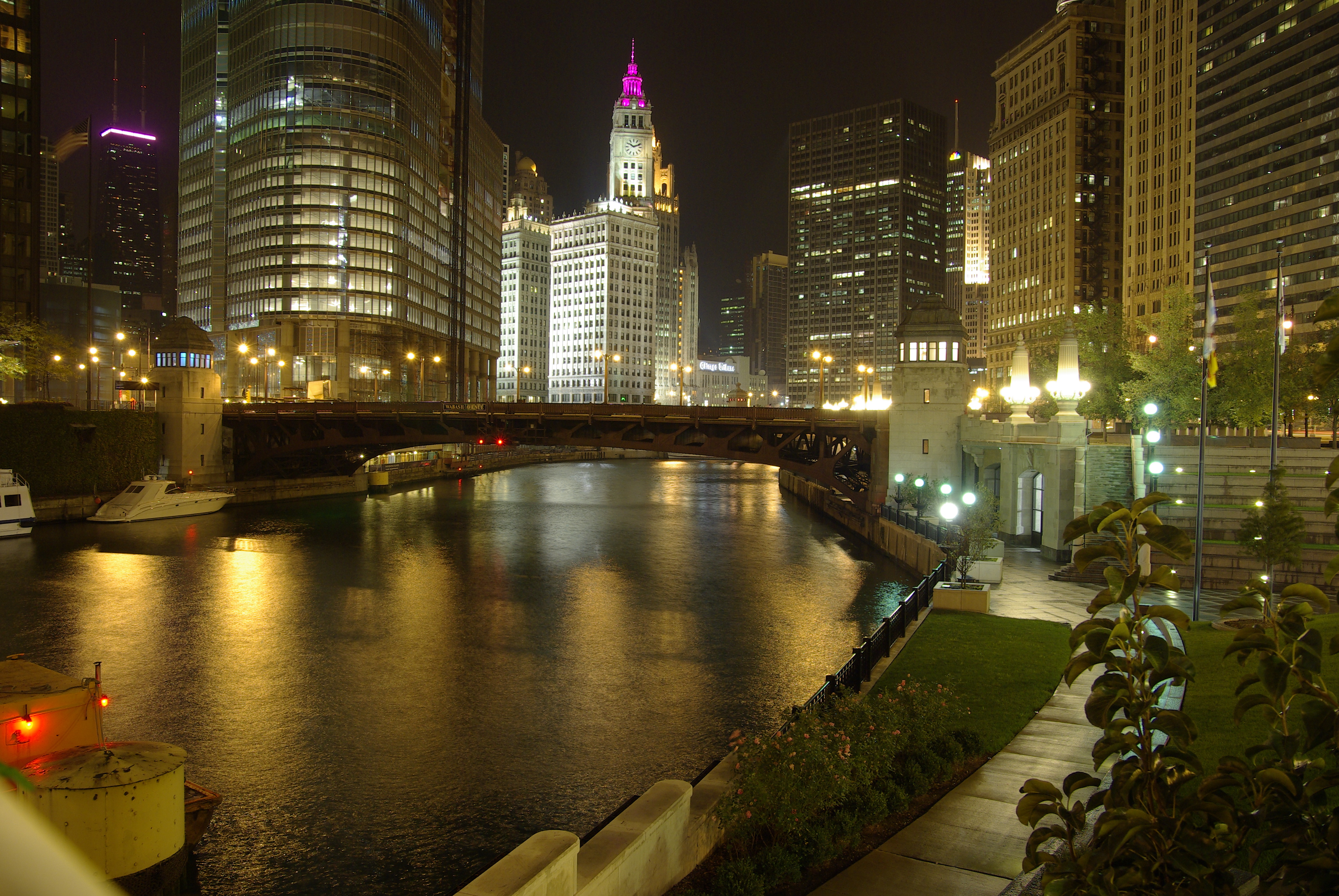 Chicago River @ night